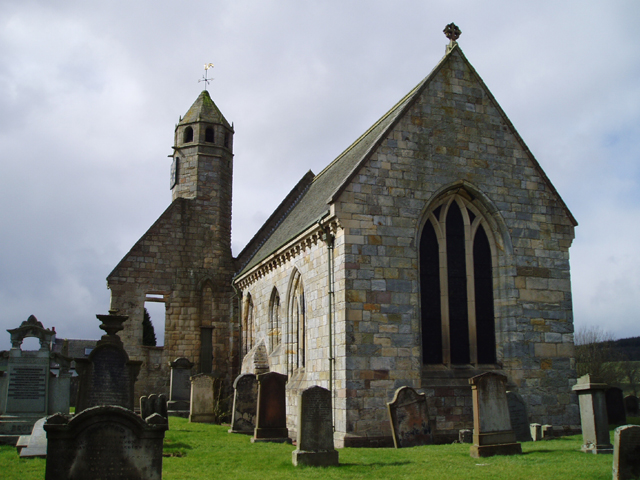 St Brides Church, Douglas. This late 14th century church now in the care of Historic Scotland is now the Mausoleum of the Black Douglases and contains the tomb of the Good Sir James Douglas who carried Robert the Bruce's heart on crusade. Today only the Choir which was reroofed in the 19th century and the South Aisle of the Nave remain along with a 16th century pencil shaped clock tower housing the oldest working clock in Scotland reputedly gifted by Mary Queen of Scot's.